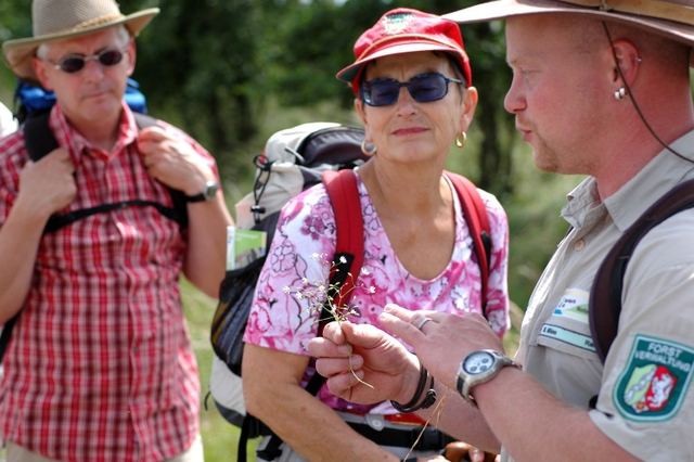 Guided tour with an ranger in Nationalpark Eifel, Dreiborn Plateau